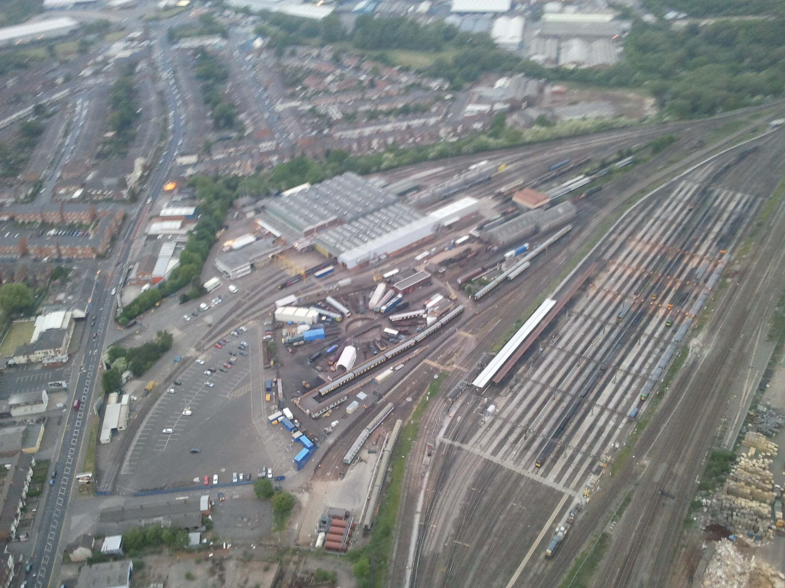 Tyseley Traction Maintenance Depot (top); Tyseley Locomotive Works (aka Birmingham Railway Museum; around the turntable); and carriage sidings, Birmingham, England. Photo taken by the West Midlands Police helicopter during routine operations.